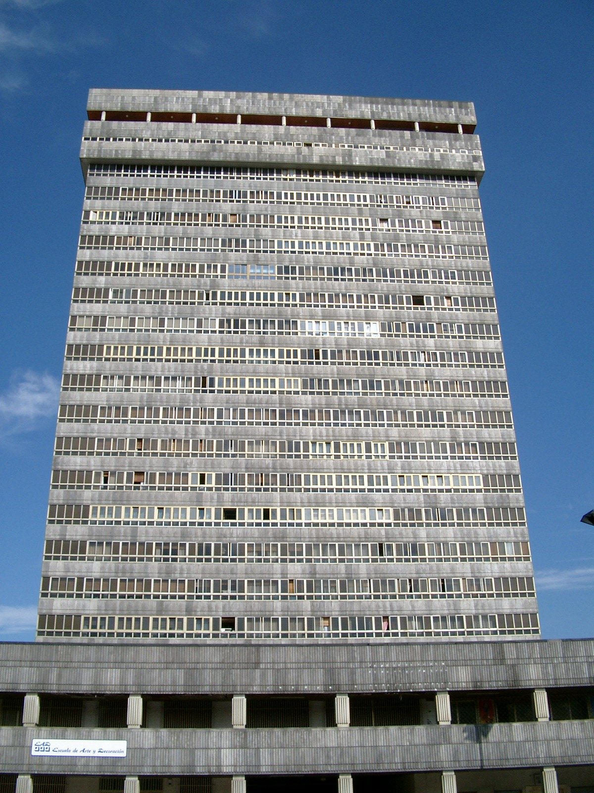 Atotxa tower (San Sebastian, Basque Country9